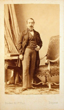 Carte de Visite of Napoleon III. The 1859 photos of Napoleon III by Disderi made the Carte de Visite type of photograph famous overnight.[1]